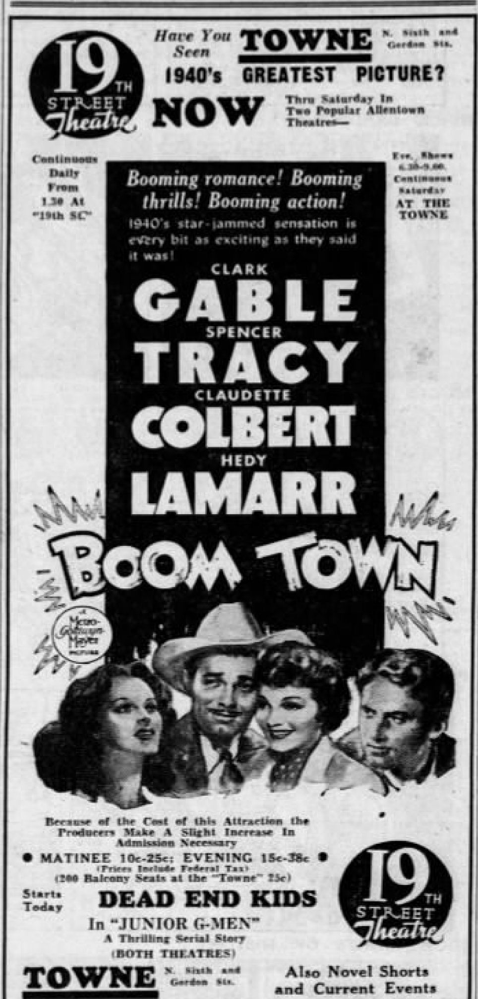 Nineteenth Street and Towne Theater advertisement for the American drama film Boom Town (1940) - 3 Oct. 1940 Morning Call, Allentown PA